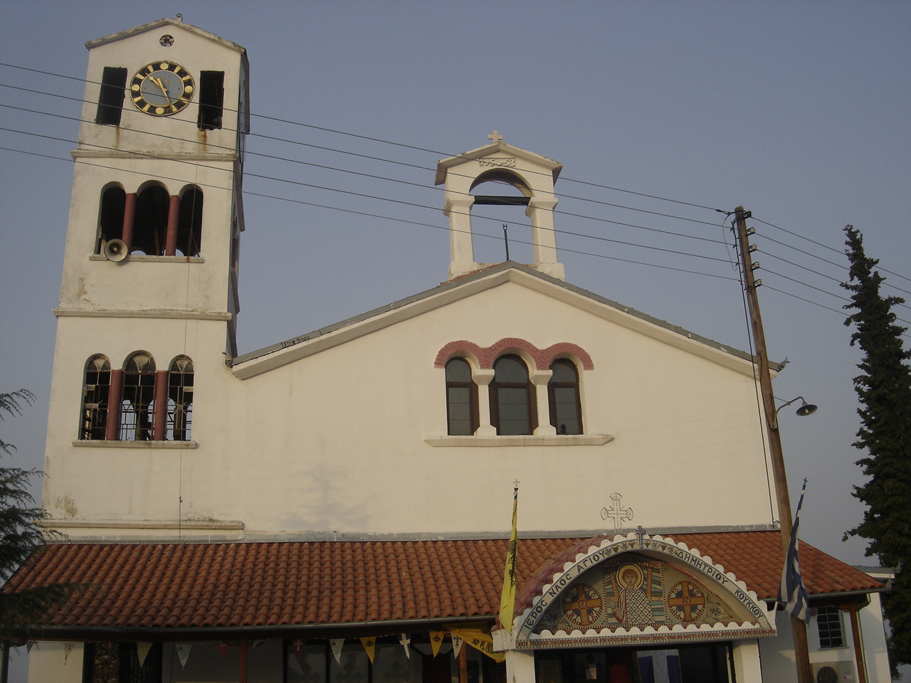 The church of Agios Dimitrios in Koukos.